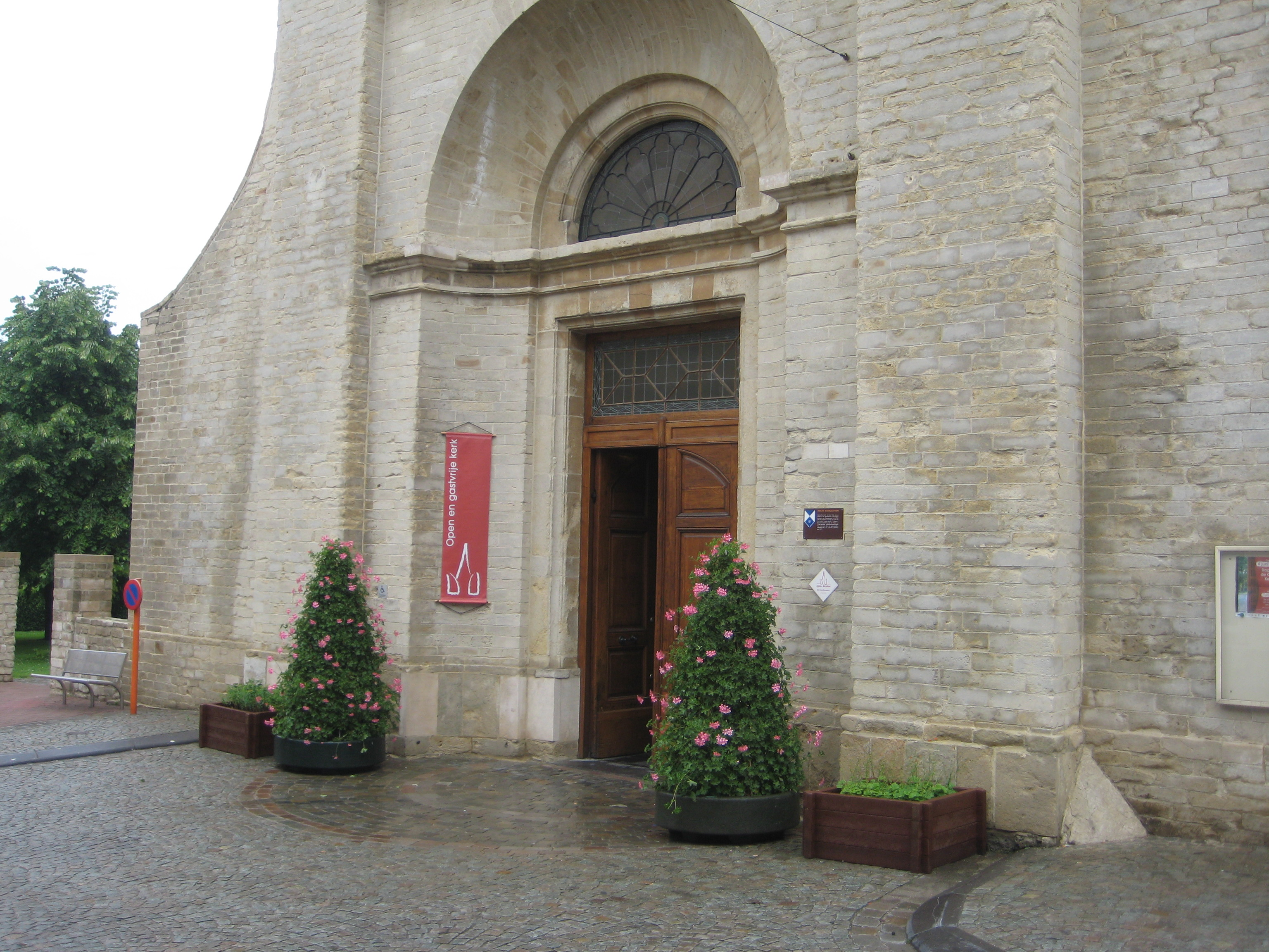 Exterior of an open church in Belgium